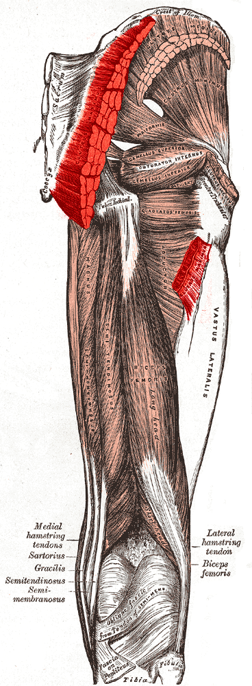 Muscles of the gluteal and posterior femoral regions with current muscle highlighted